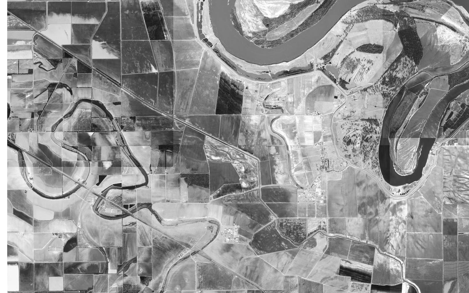 USGS orthophoto of the Cummins Unit and Varner Unit in Lincoln County, Arkansas